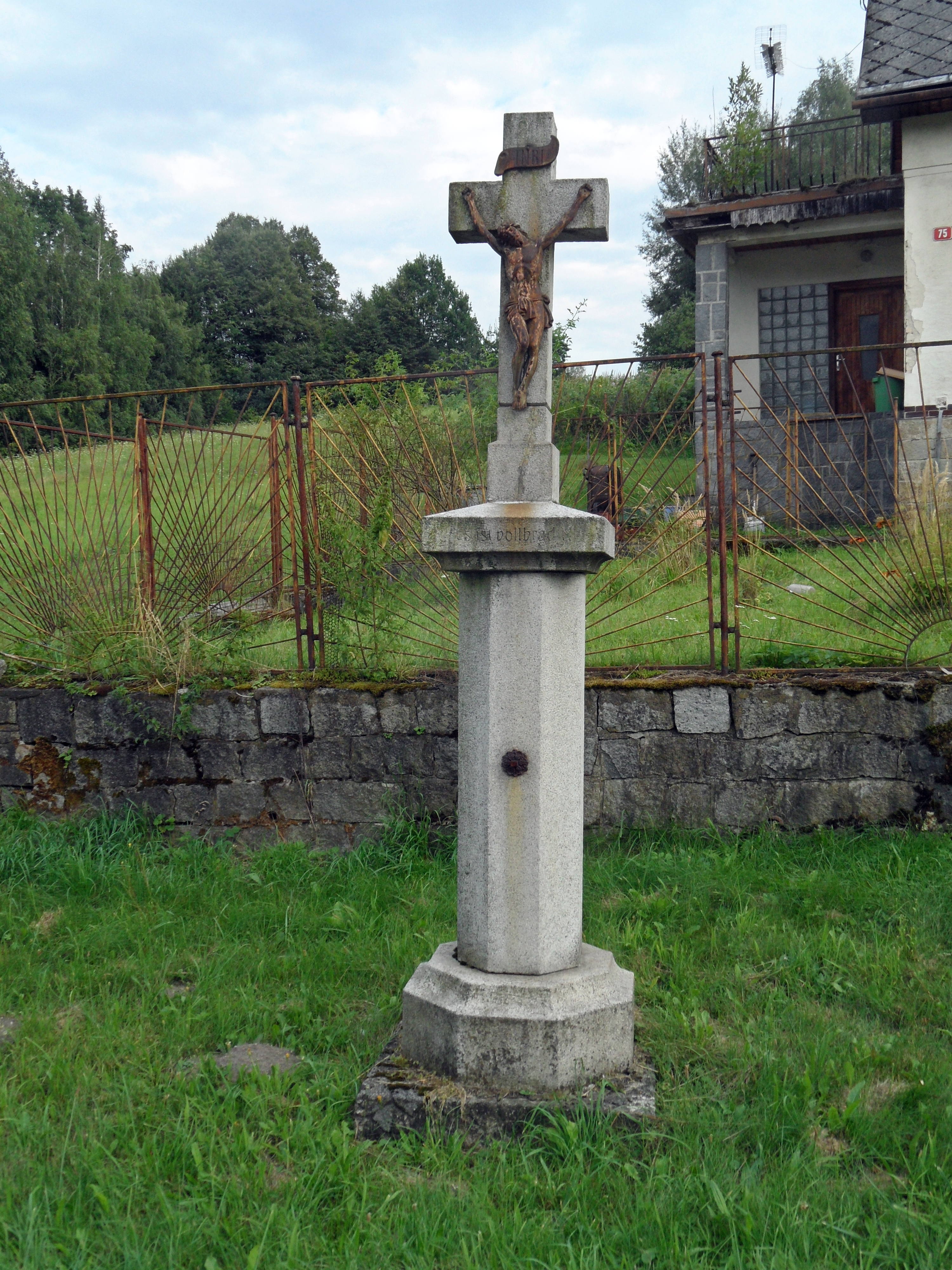 Rokliny: Crucifix. Jeseník District, the Czech Republic.